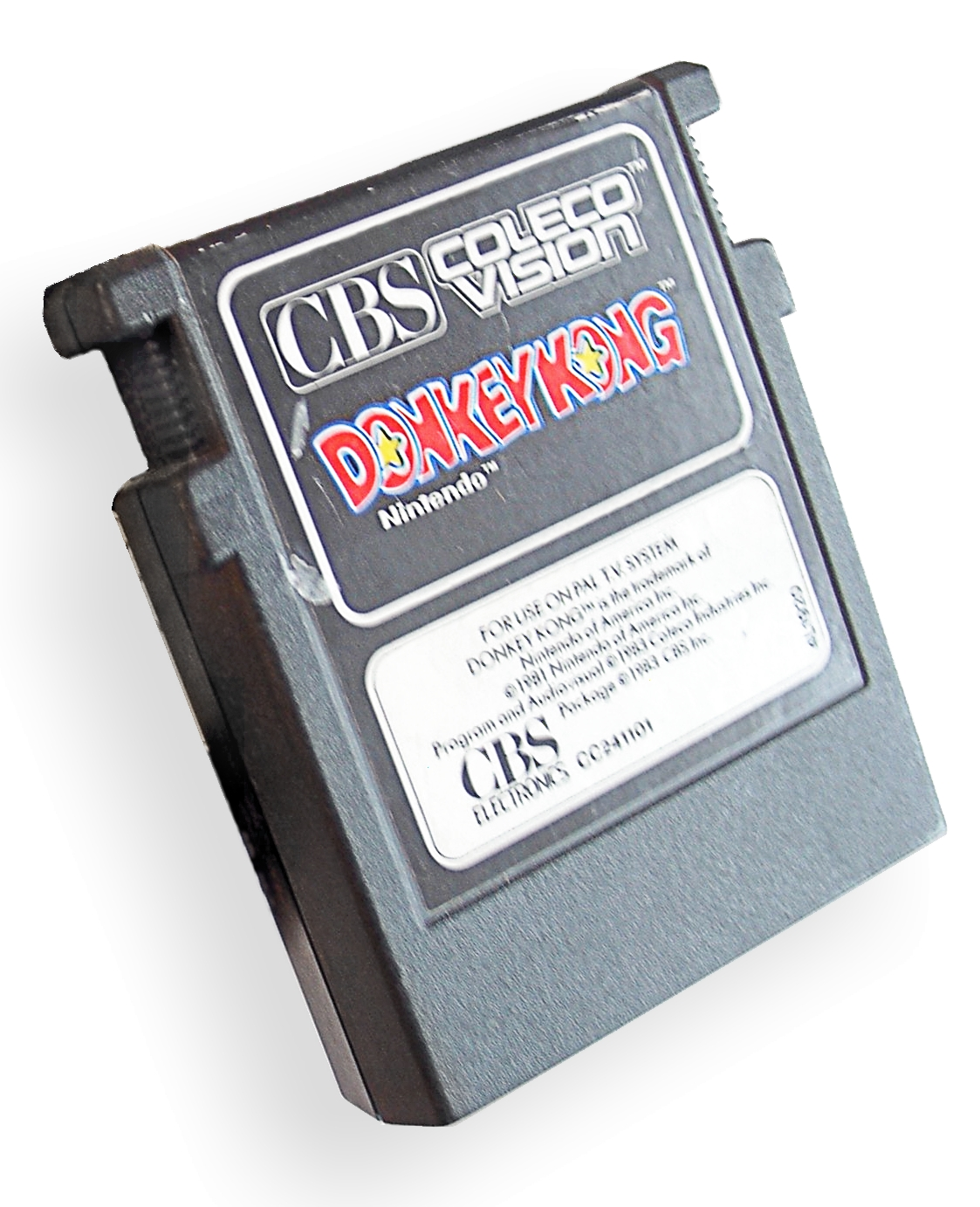 Donkey Kong-Cartridge of a ColecoVision.